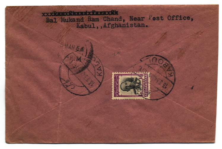 Afghanistan cover from 1954